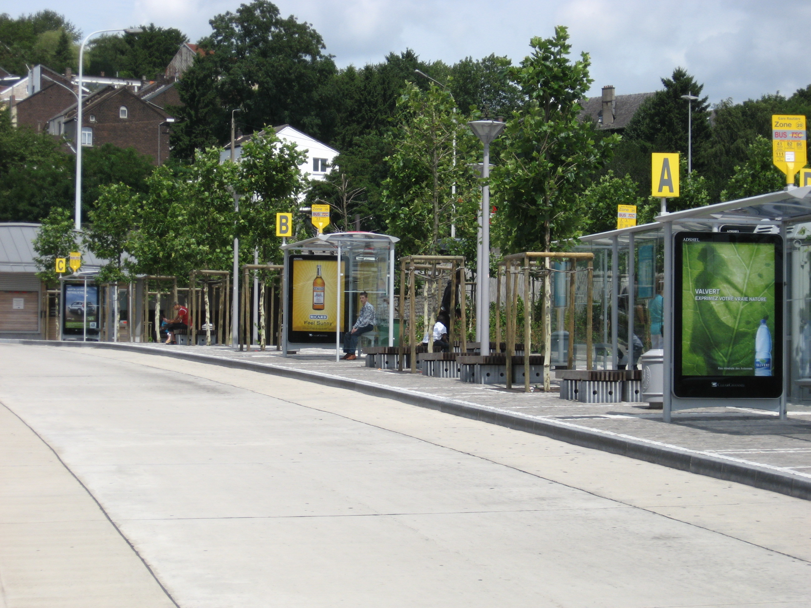 Busstation in Jemeppe-sur-Meuse